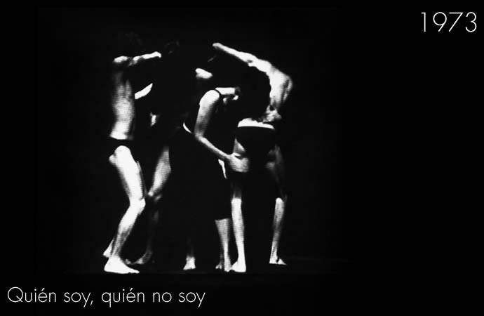 Foto del primer espectáculo del TET "Quién soy, quién soy"